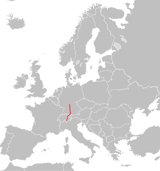 The European route 43